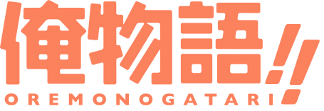 My Love Story!! logo